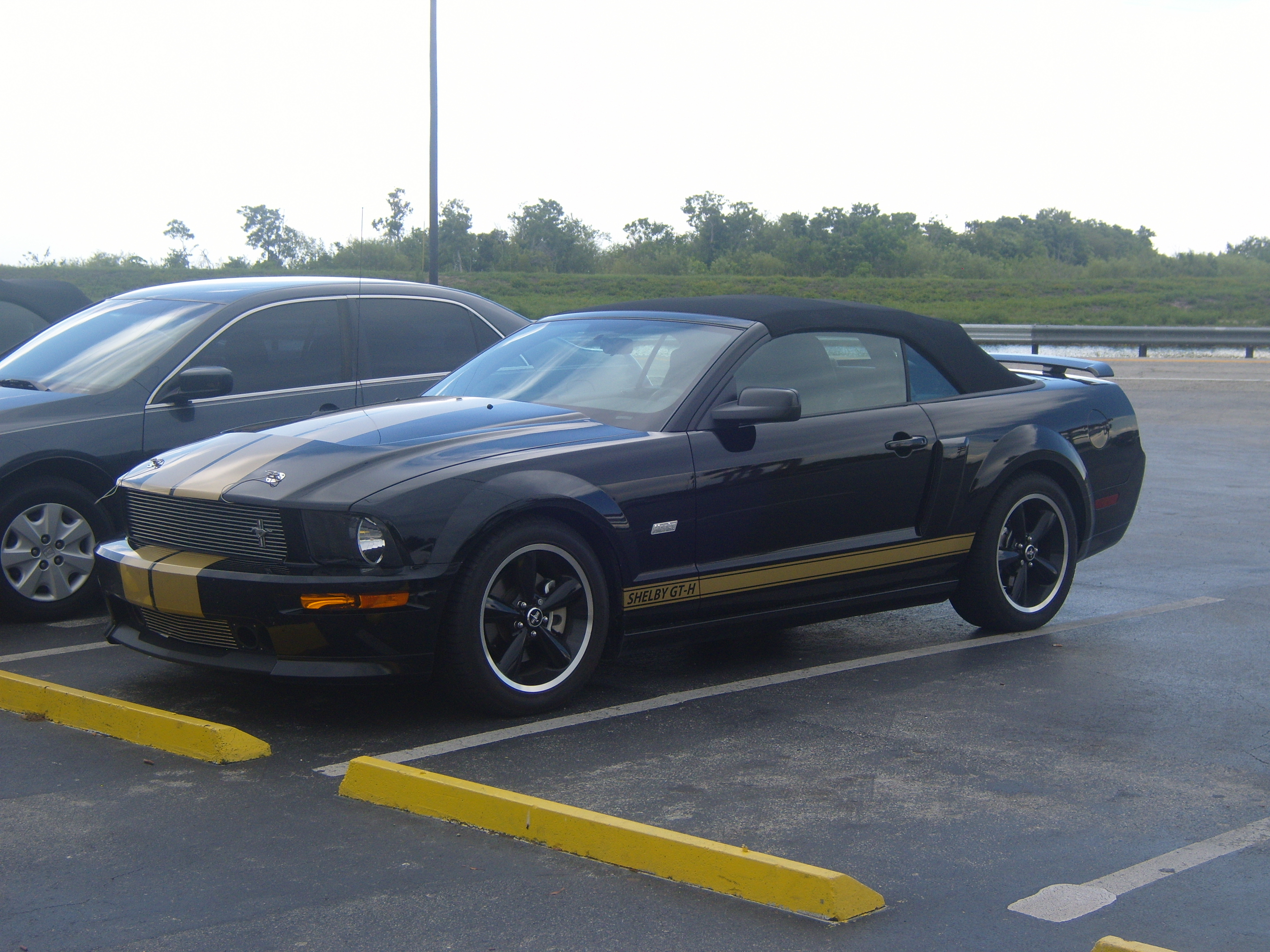 Mustang Shelby GT-H